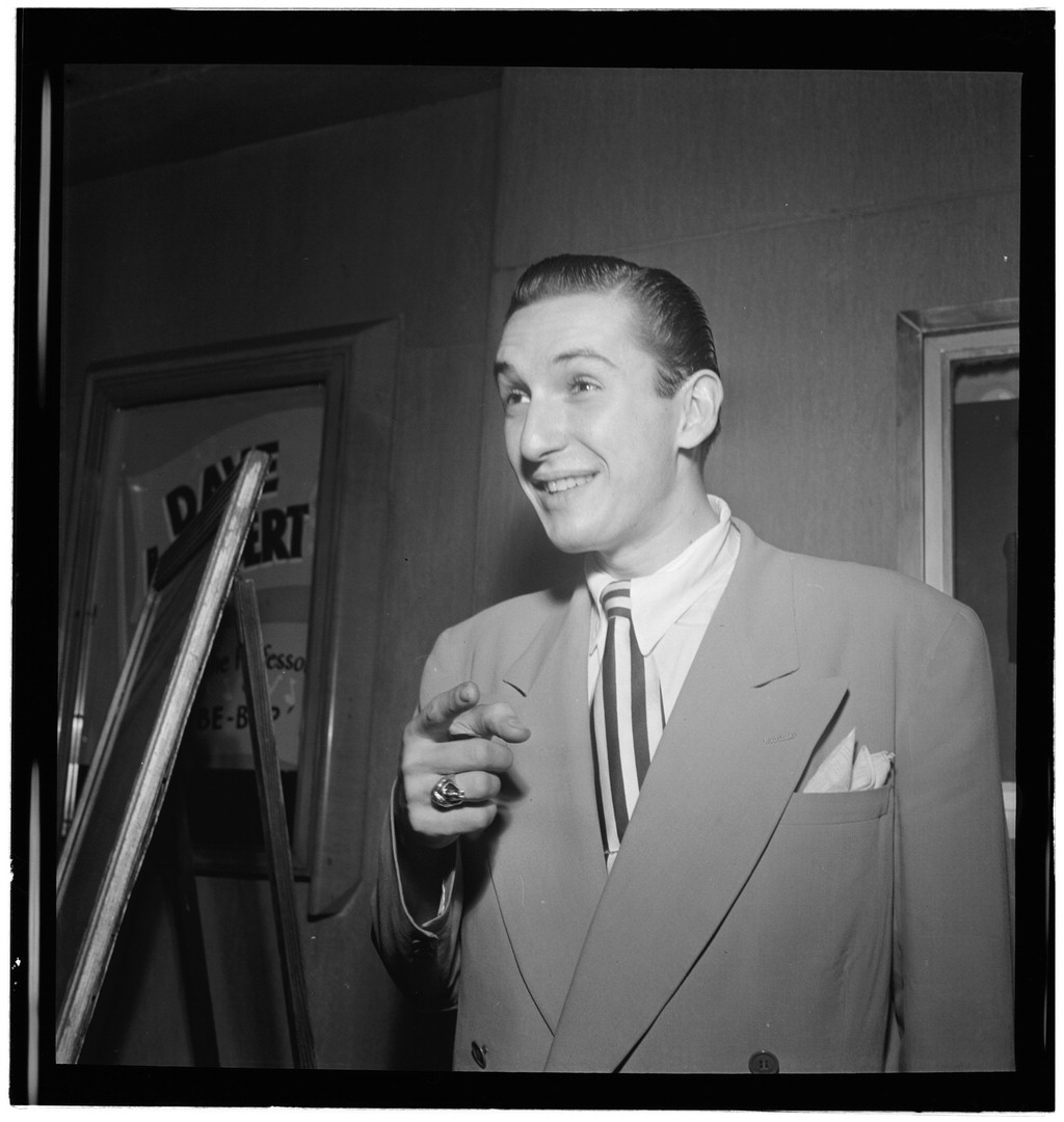 Portrait of Serge Chaloff, Club Troubadour(?), New York, N.Y., ca. Sept. 1947. Photography by William P. Gottlieb